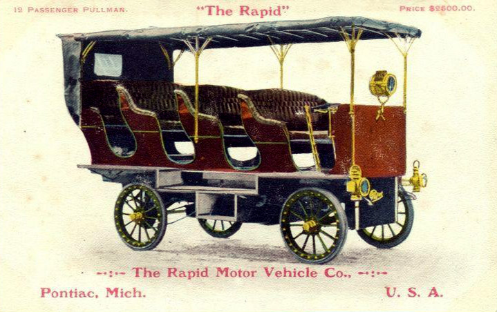 Postcard depiction of a 12 passenger Rapid Pullman vehicle.